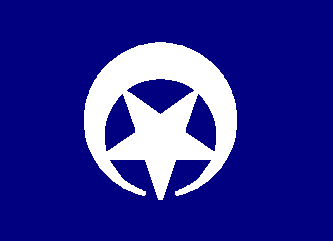 VII Corps, Dept of Arkansas, 2nd Division Badge